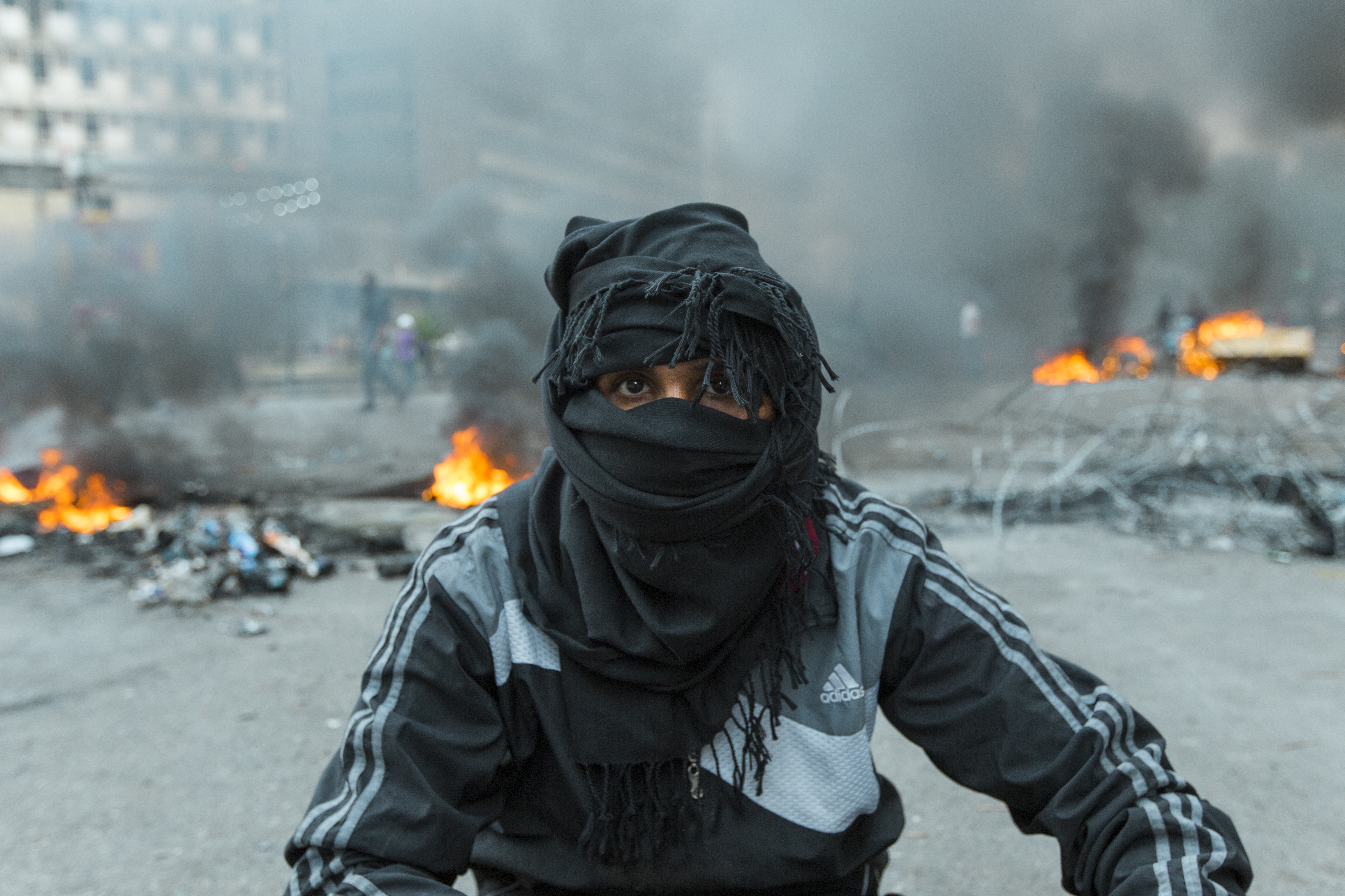 Protesters close Al-Khulani Square, declaring civil disobedience in the October Revolution